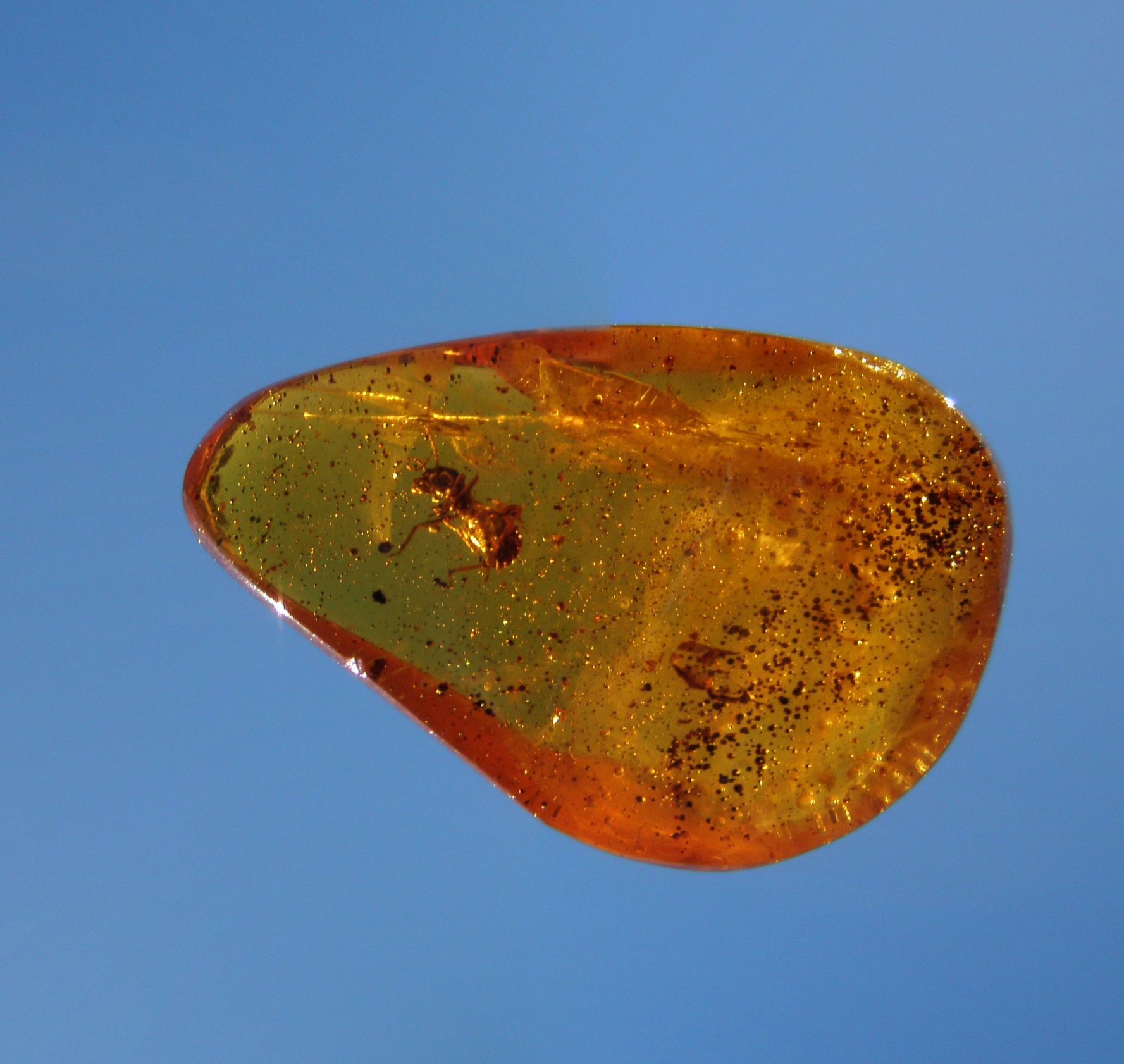 An ant in a small piece (1.5cm × 2cm) of Colombian Amber